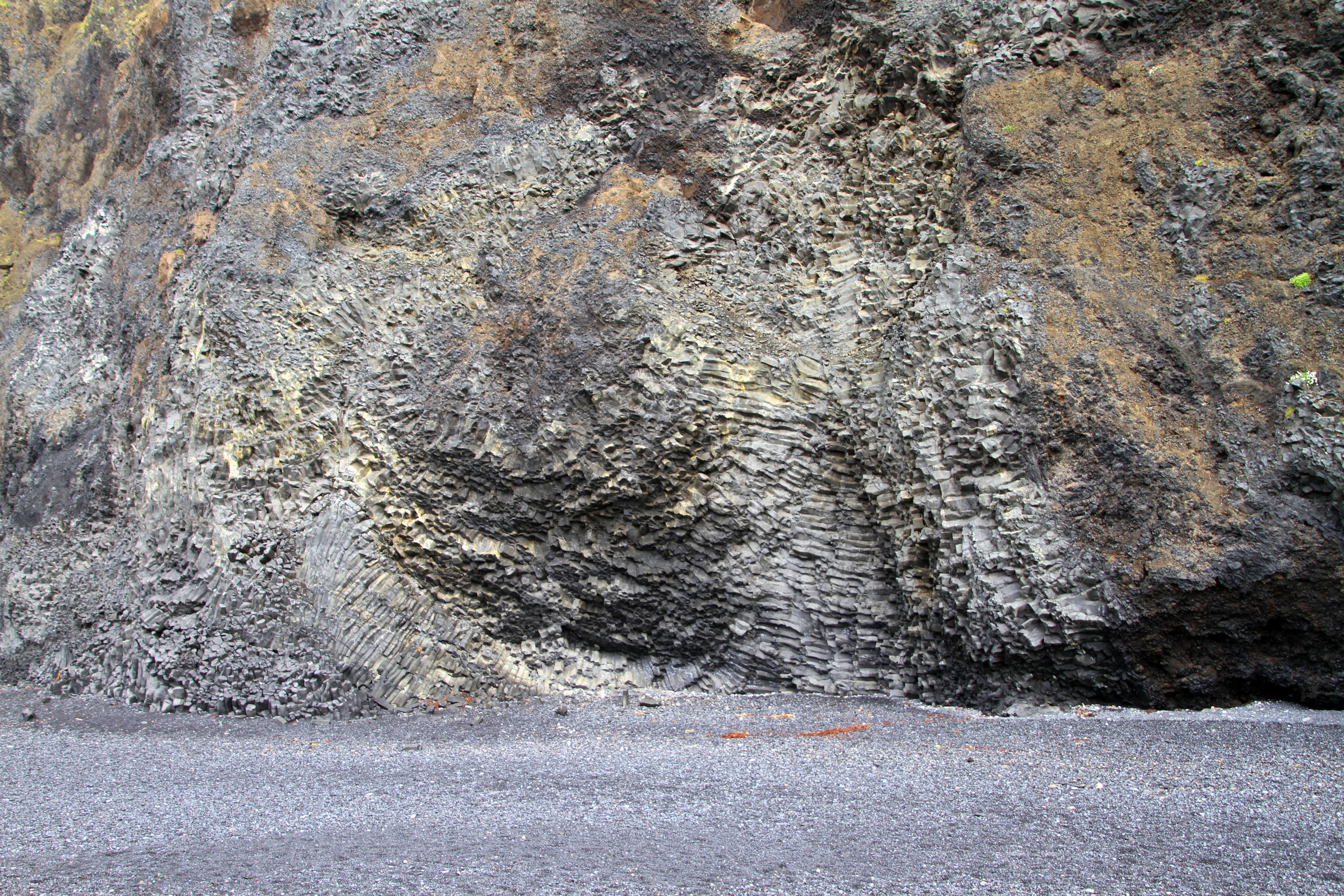 Columnar basalts at Reynisfjara